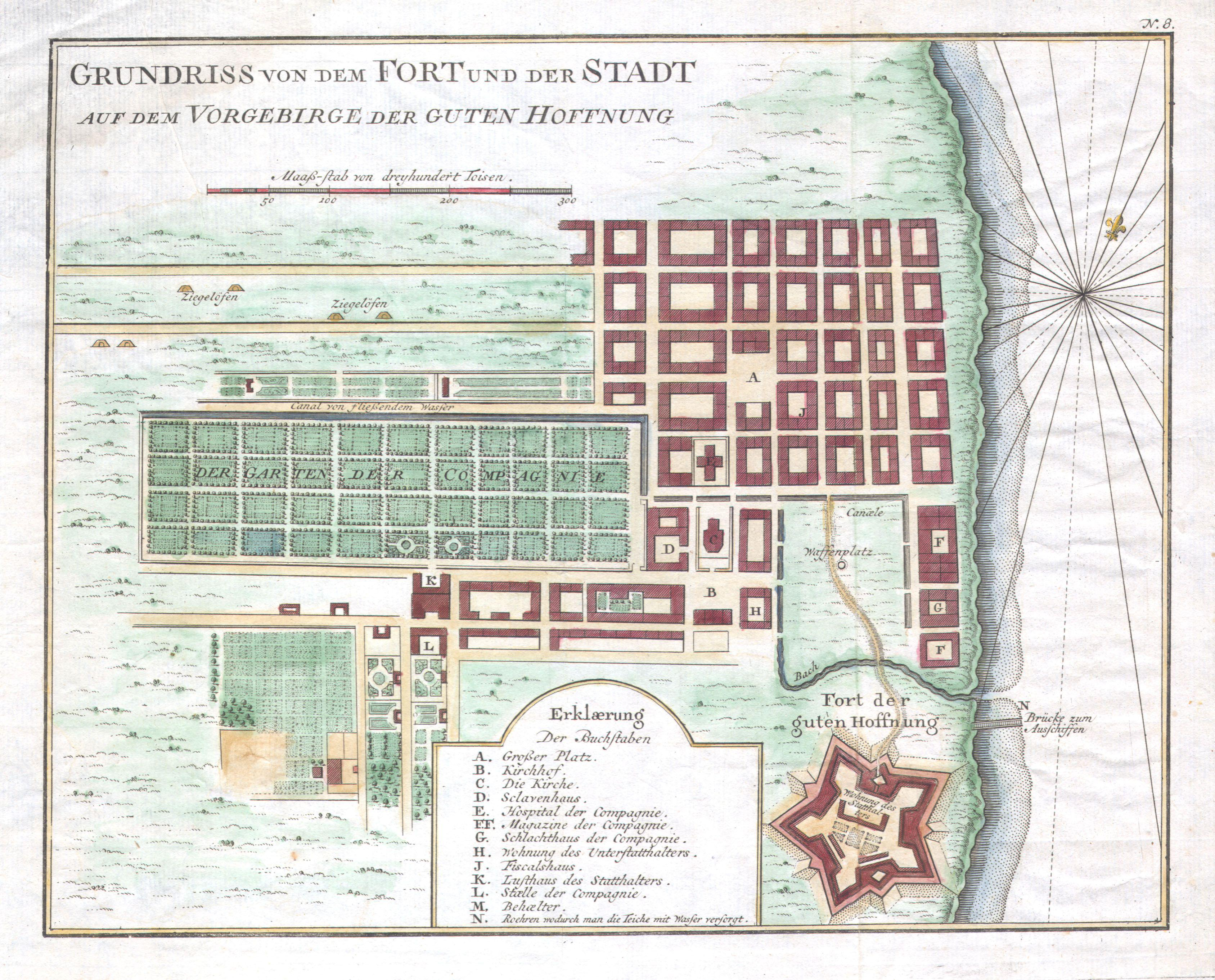 Featured here is a rare c. 1750 map of Cape Town, South Africa, by the French cartographer Jacques-Nicholas Bellin. Map depicts the city and for of Cape Town in considerable detail with particular emphasis on the identifications of individual buildings and gardens. Text is printed in German and French.